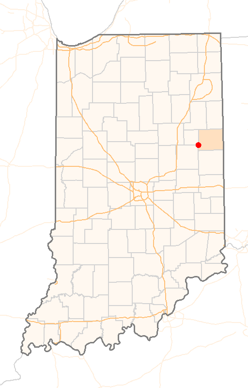 Red Dot map of Indiana, showing the location of Dunkirk